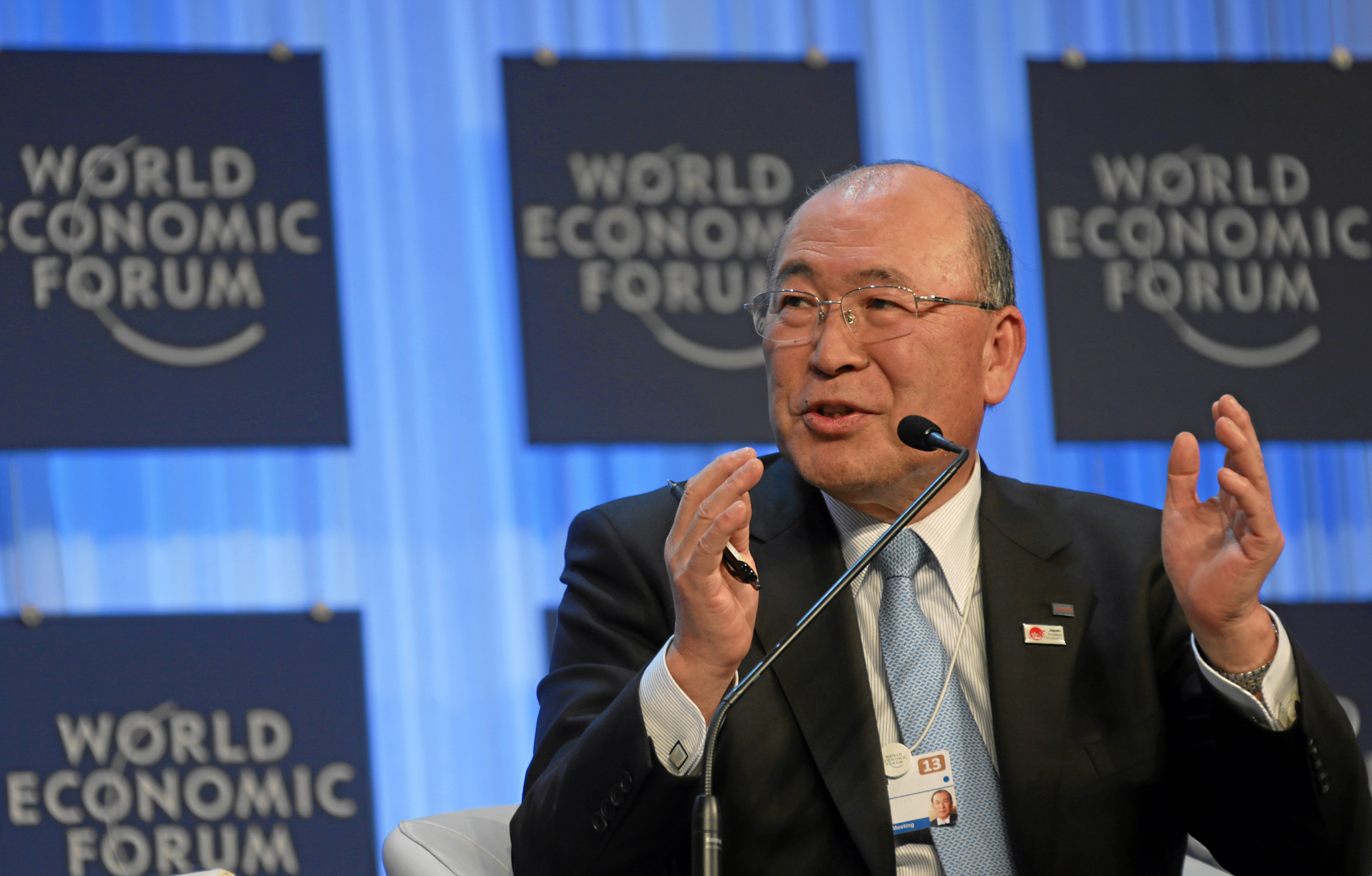 Atsutoshi Nishida, Chairman of the Toshiba Corporation, spoke about the "Global Agenda 2013" at the Annual Meeting of the World Economic Forum in Davos Municipality, Graubünden Canton on January 26, 2013.